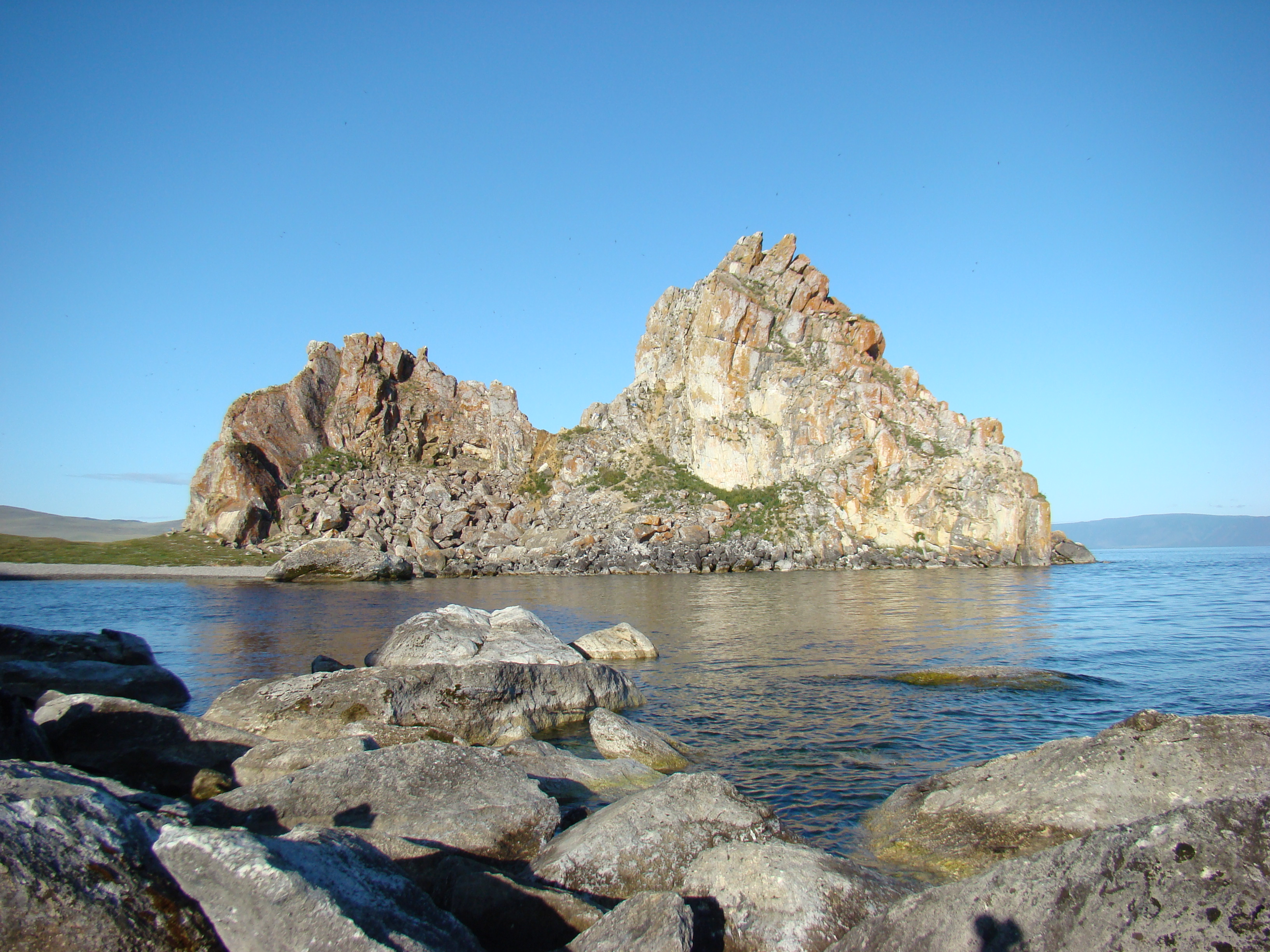 Shaman's Rock at the Olkhon Island, Lake Baikal, Russia